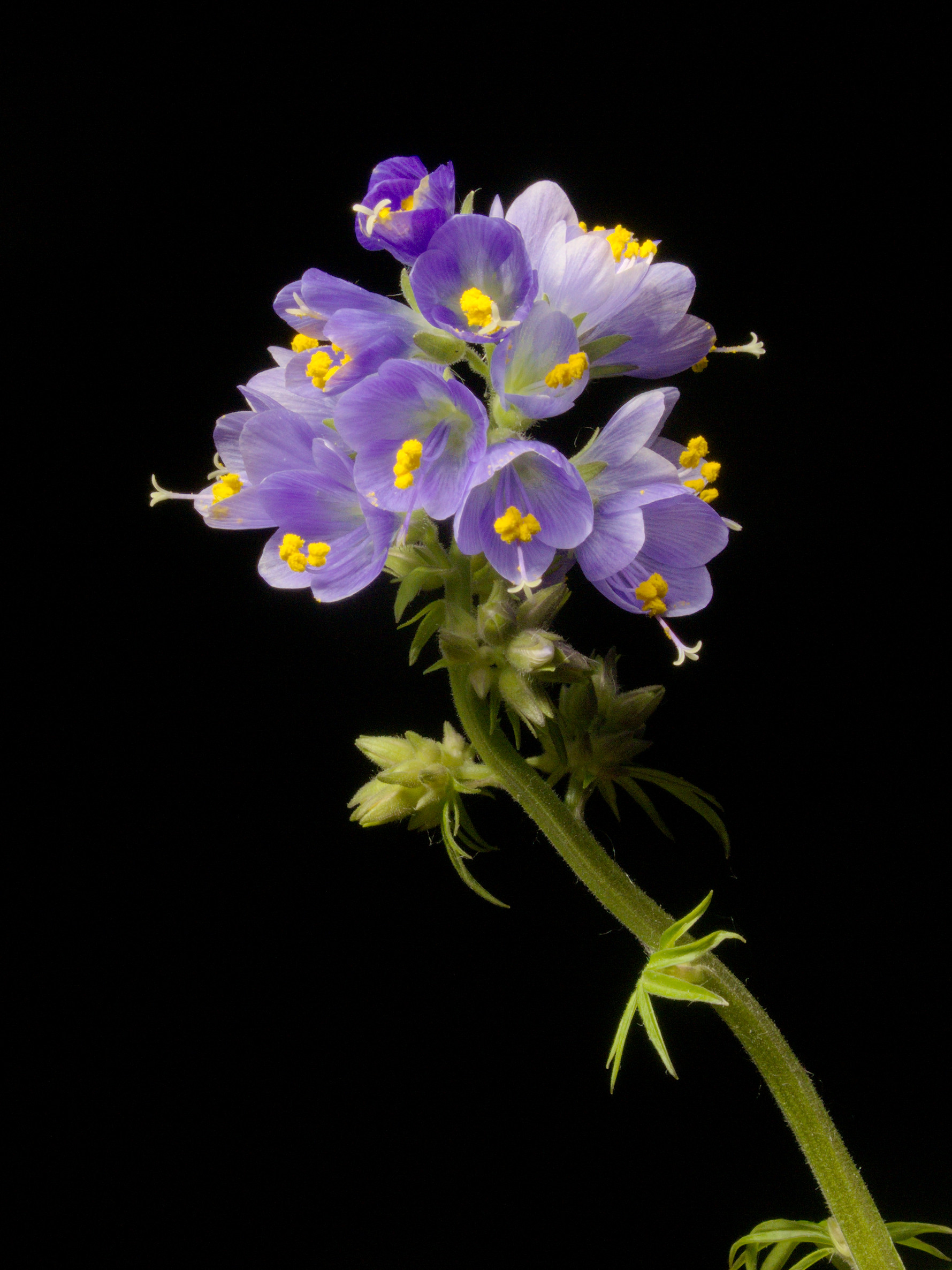 Polemonium caeruleum L. Inflorescence of cultivated Jacob's-ladder.